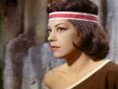 Public domain photo of Italian actress Carla Foscari in the film Thor and the Amazon Women (1963).